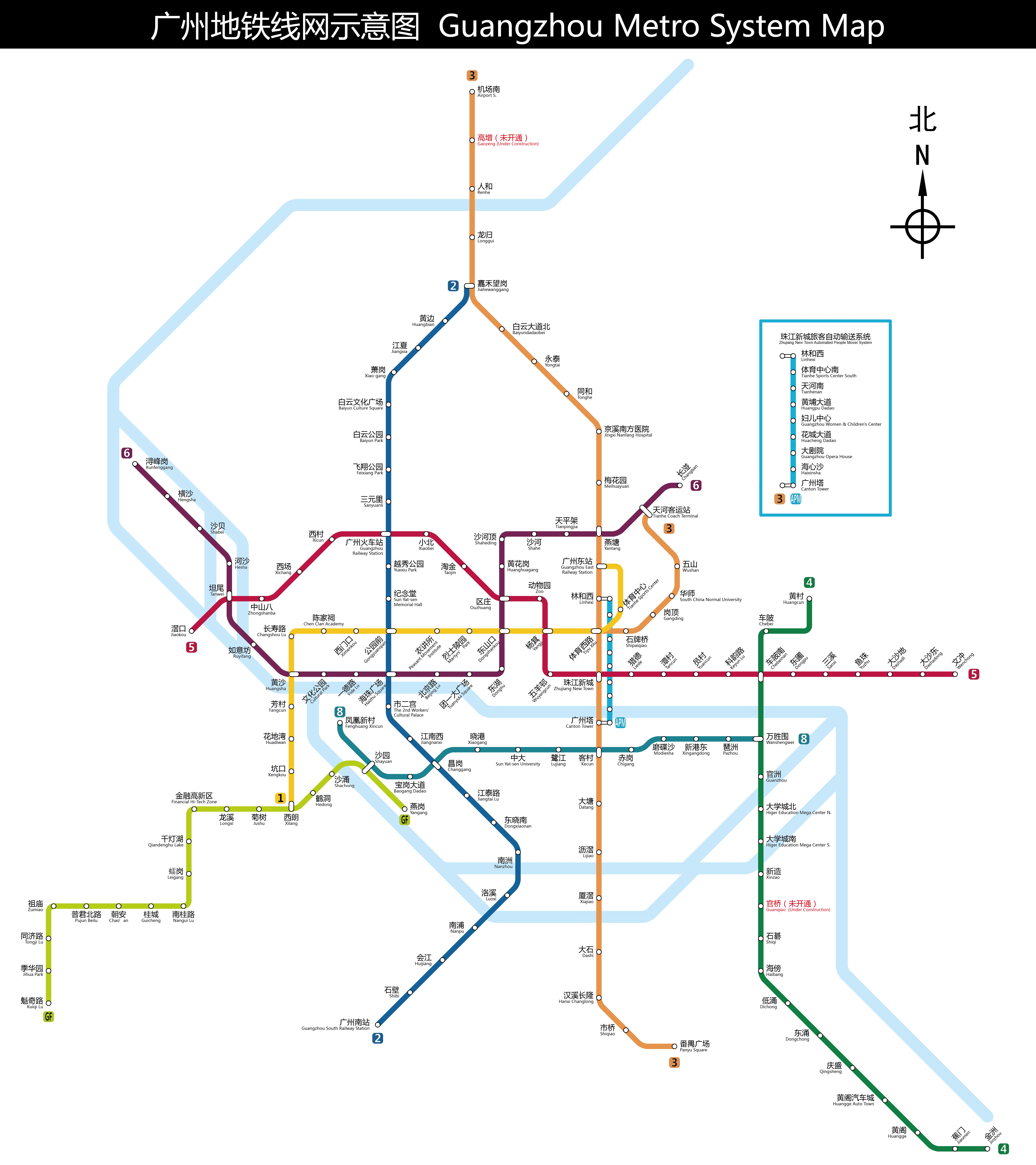 The map of Guangzhou Metro network at the end of 2015. Guang-Fo Line's new stations and Qingsheng Station, Line 4 included. (Contact me if you find a mistake in it. Thank you.)